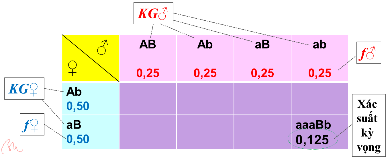 Punnett square.